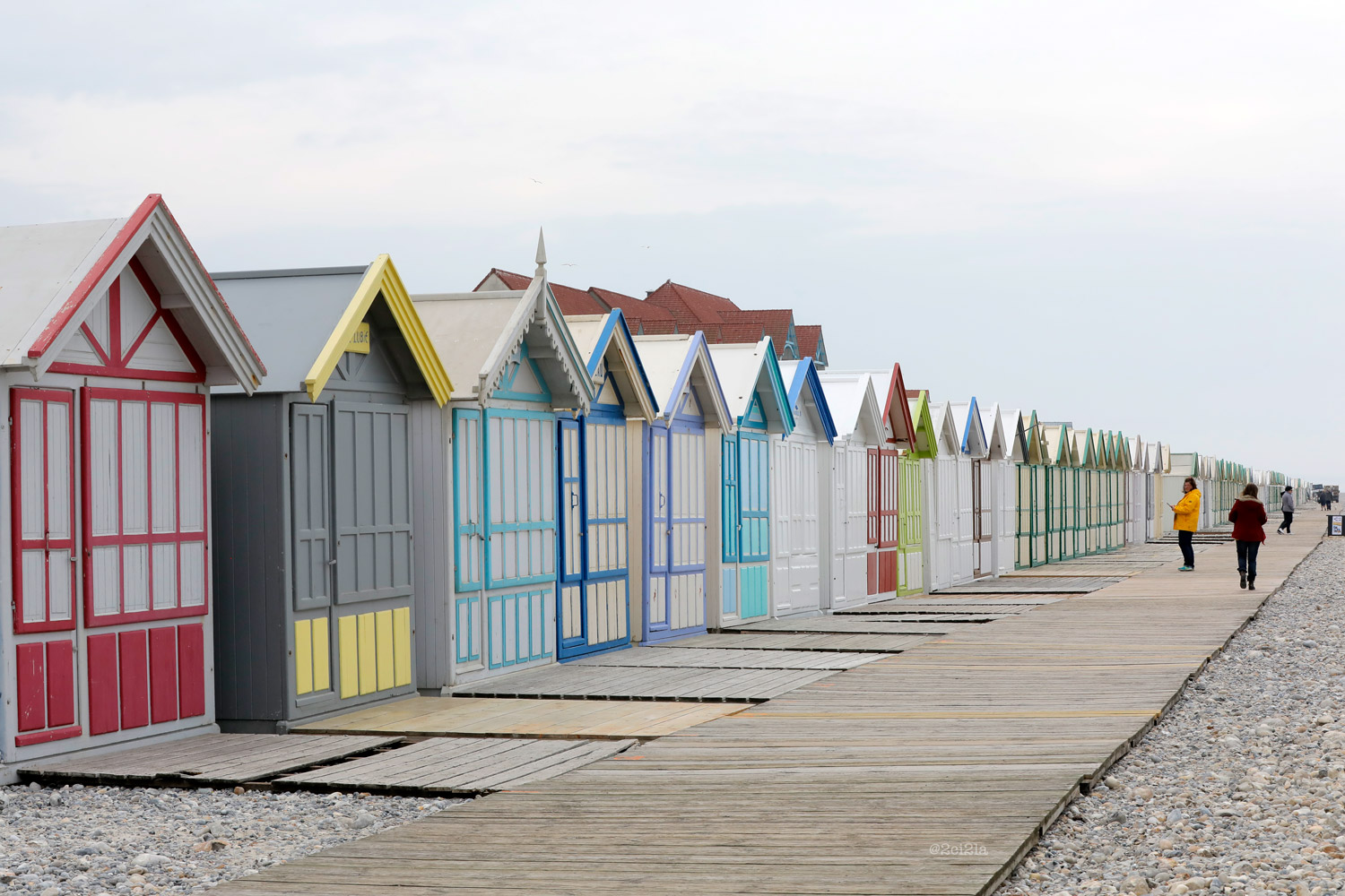 beach huts on the seafront in Cayeux-sur-Mer